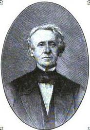 Portrait of Adolf von Moltke